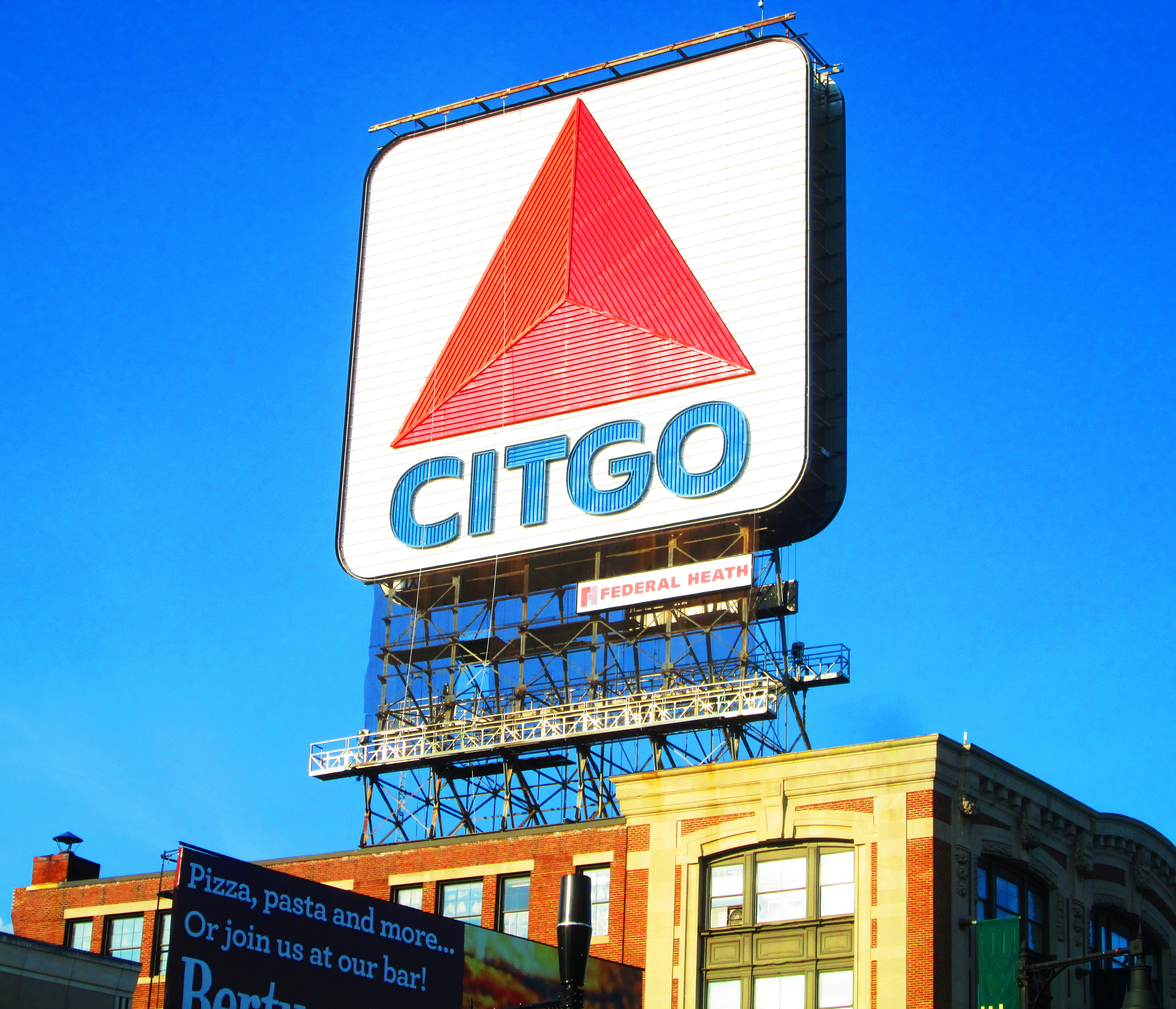 The double-sided Citgo sign in Kenmore Square, Boston, Massachusetts, was erected in 1965, replacing one which was built in 1940. Originally, there was a Cities Service (Citgo) gas station at street level, but it is no longer there. When Citgo attempted to dismantle the sign in 1983, the effort was met with a public outcry, as it had become a well-known landmark. The Boston Landmark Commission ordered the removal to be halted while the fate of the sign was debated. Citgo refurbished the sign, and it had remained in place ever since. In 2016, the Landmarks Commission gave the sign temporary landmark status, and in November 2018 it voted unanimously to give the sign office status as a Boston Landmark, however, this was vetoes by mayor Marty Walsh. The owner of the building -- 660 Beacon Street -- the sign in located on, Related Beal, entered into a deal with Citgo for the sign to remain in place for 30 years. As of 2019, the sign is not protected by landmark status.